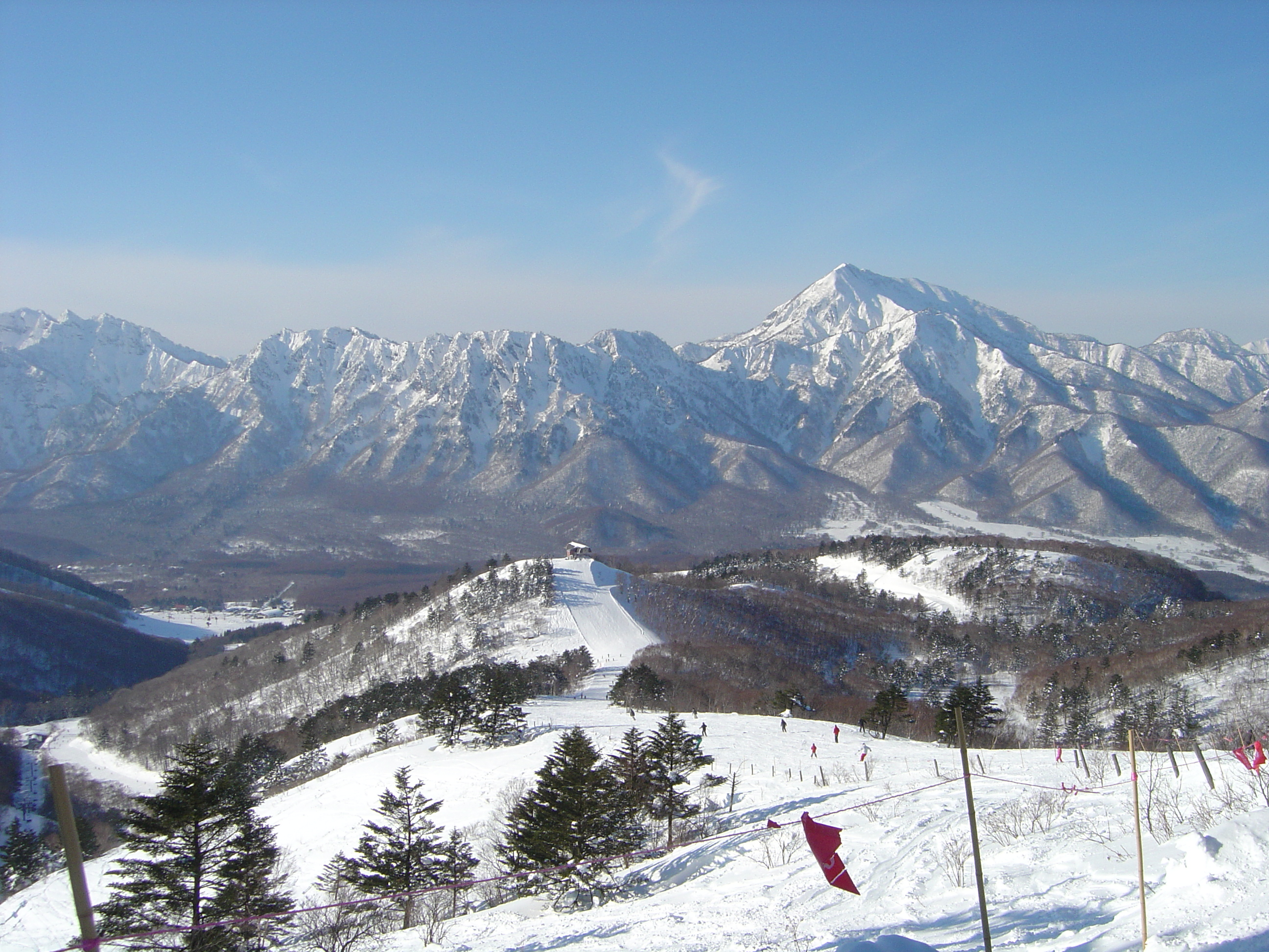 Togakushi Mountains seen from east. Taken from Togakushi Snow World.